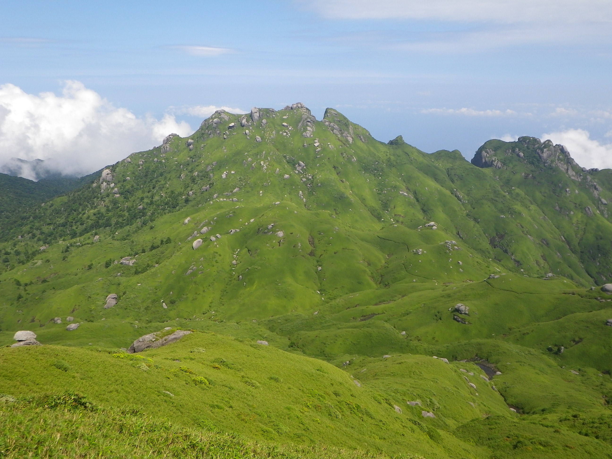 Mount Nagata (Nagatadake) in Yakushima